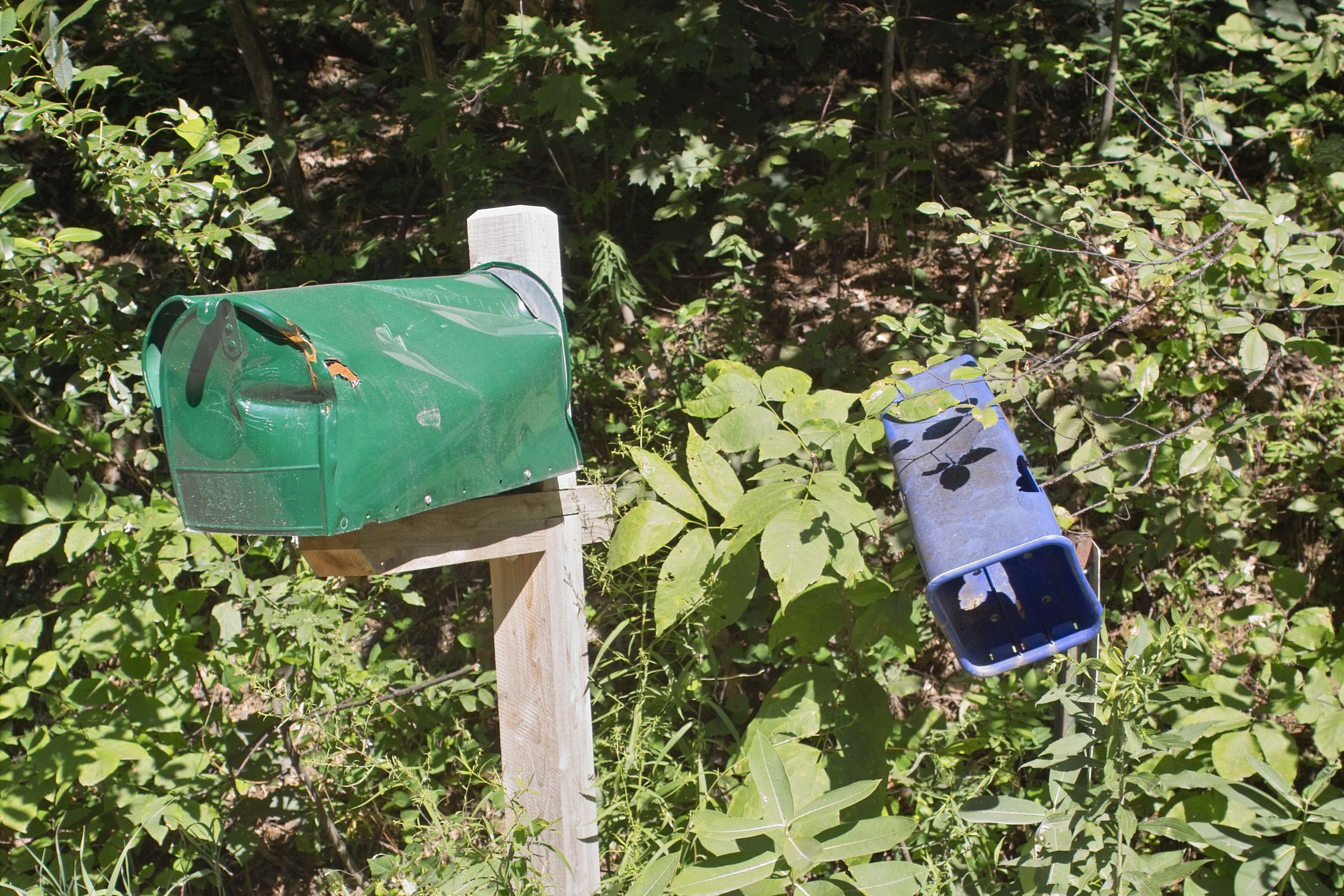 Mailboxes that were involuntary engaged in mailbox baseball in Monkton, Vermont, USA.